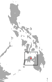 Greater Mindanao Shrew (Crocidura grandis) range